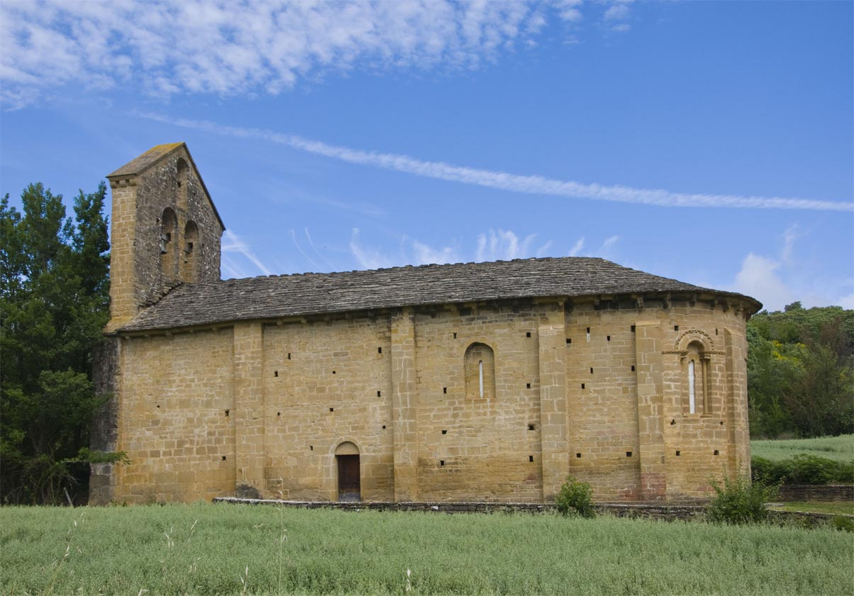 Overview of San Pedro de Etxano from the south side